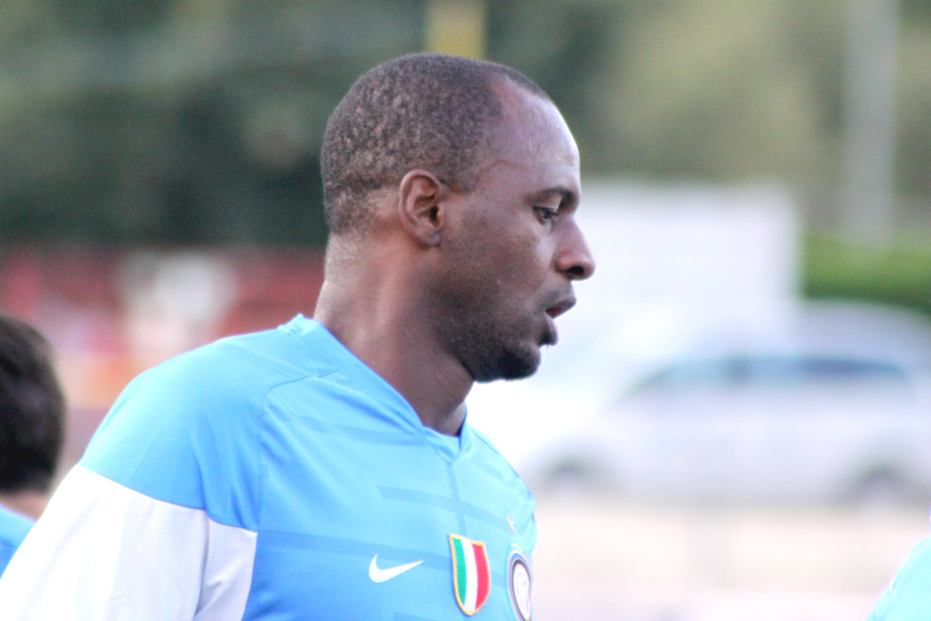 Patrick Vieira - F.C. Internazionale Milano.